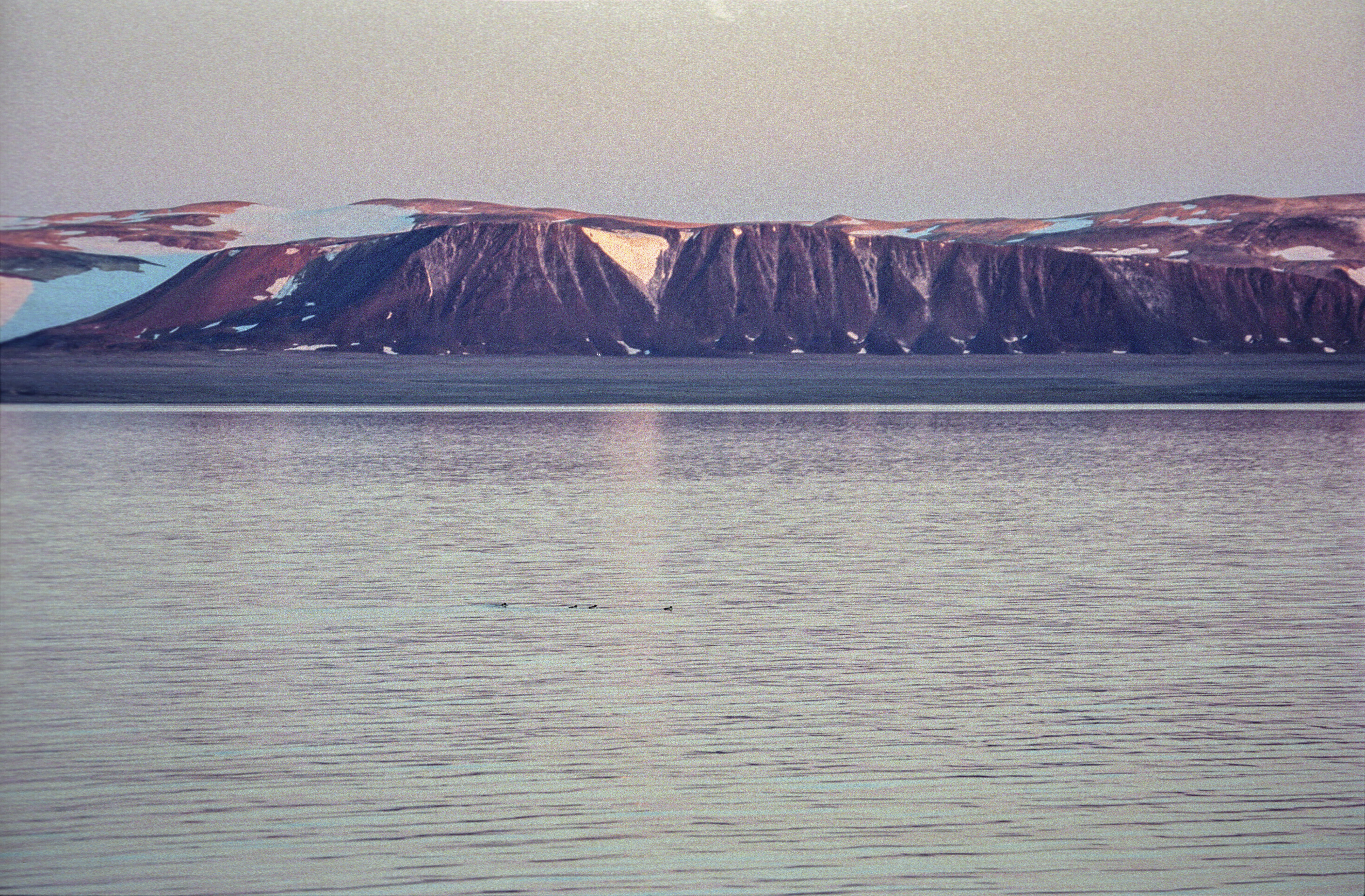 Svalbard, Hinlopenstretet. This is the northeastern part of the Heclahuken (=Hecla Hoek) mountains at Ny-Friesland, northern Ny-Friesland, northeastern Spitsbergen. The plain in the foreground is Basissletta.